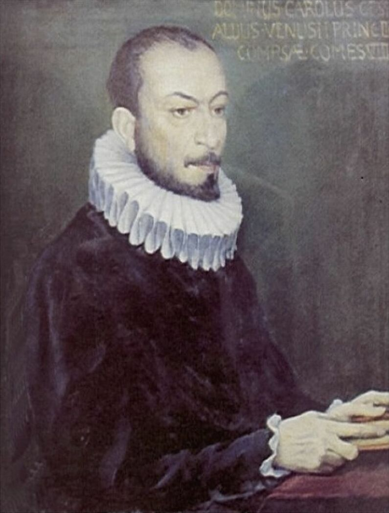 Portrait of Carlo Gesualdo